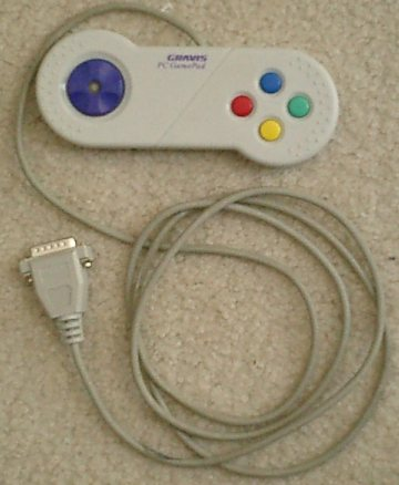 Original Gravis Gamepad for IBM PC compatibles.